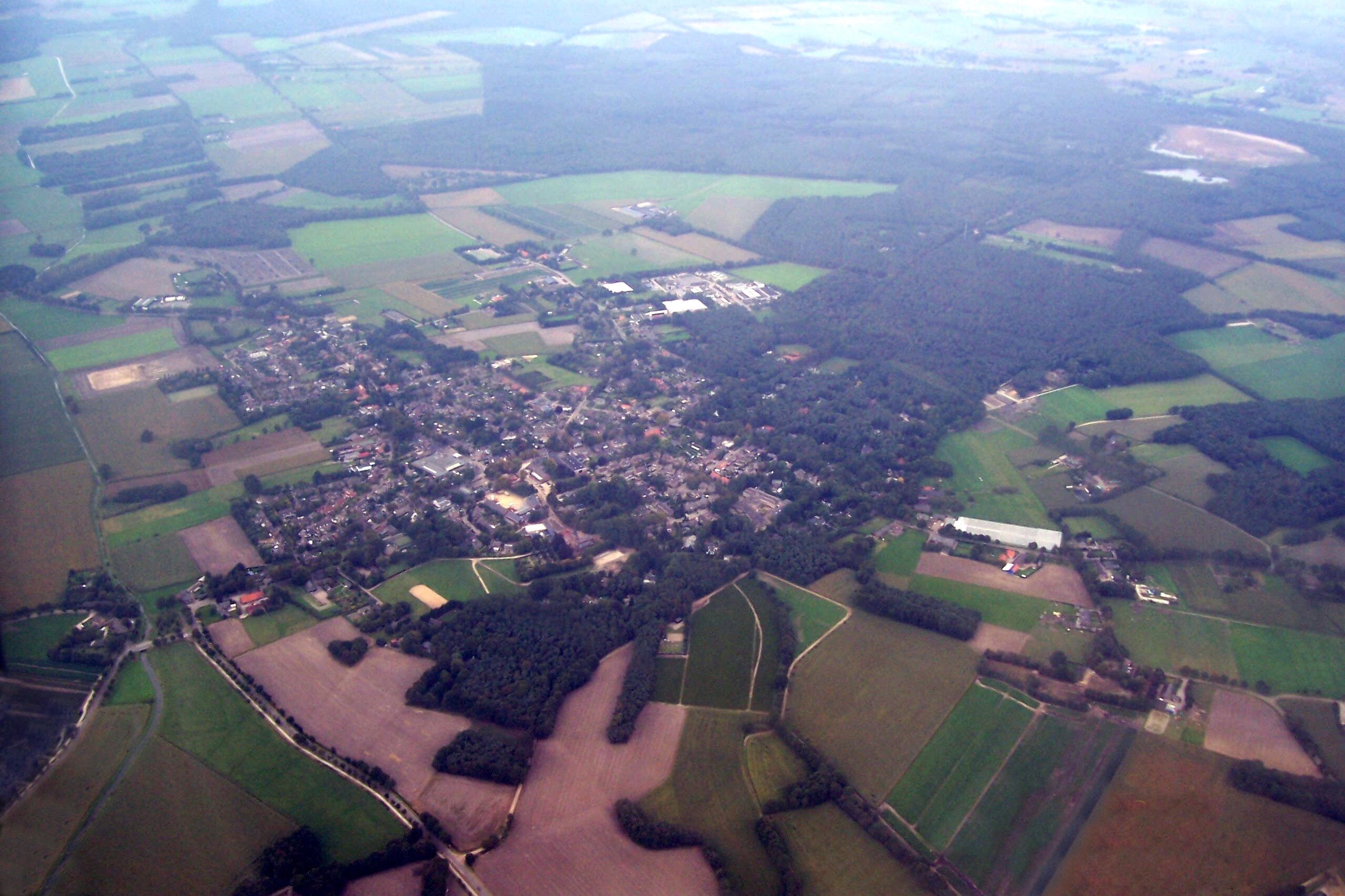 Bird's-eye view of Vessem